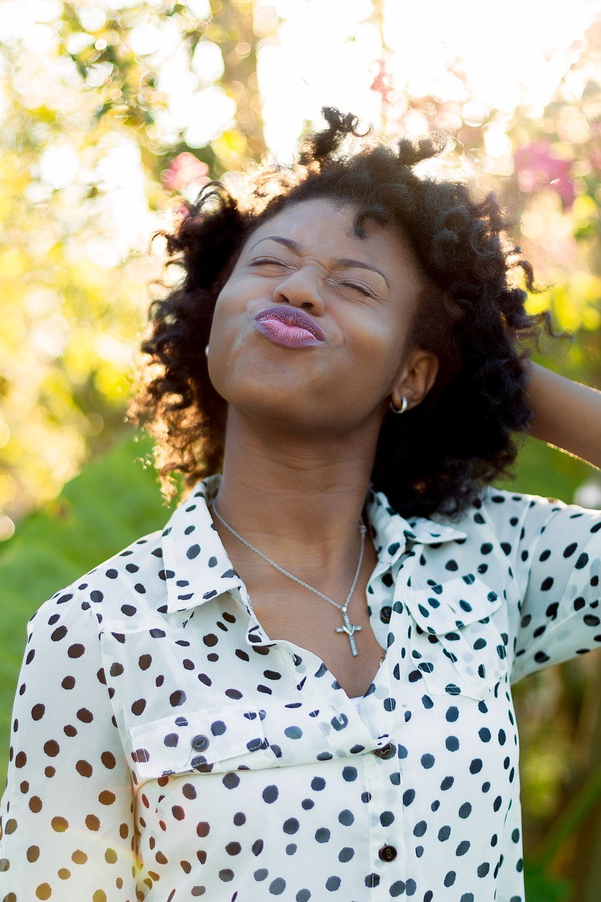 Girl with Afro